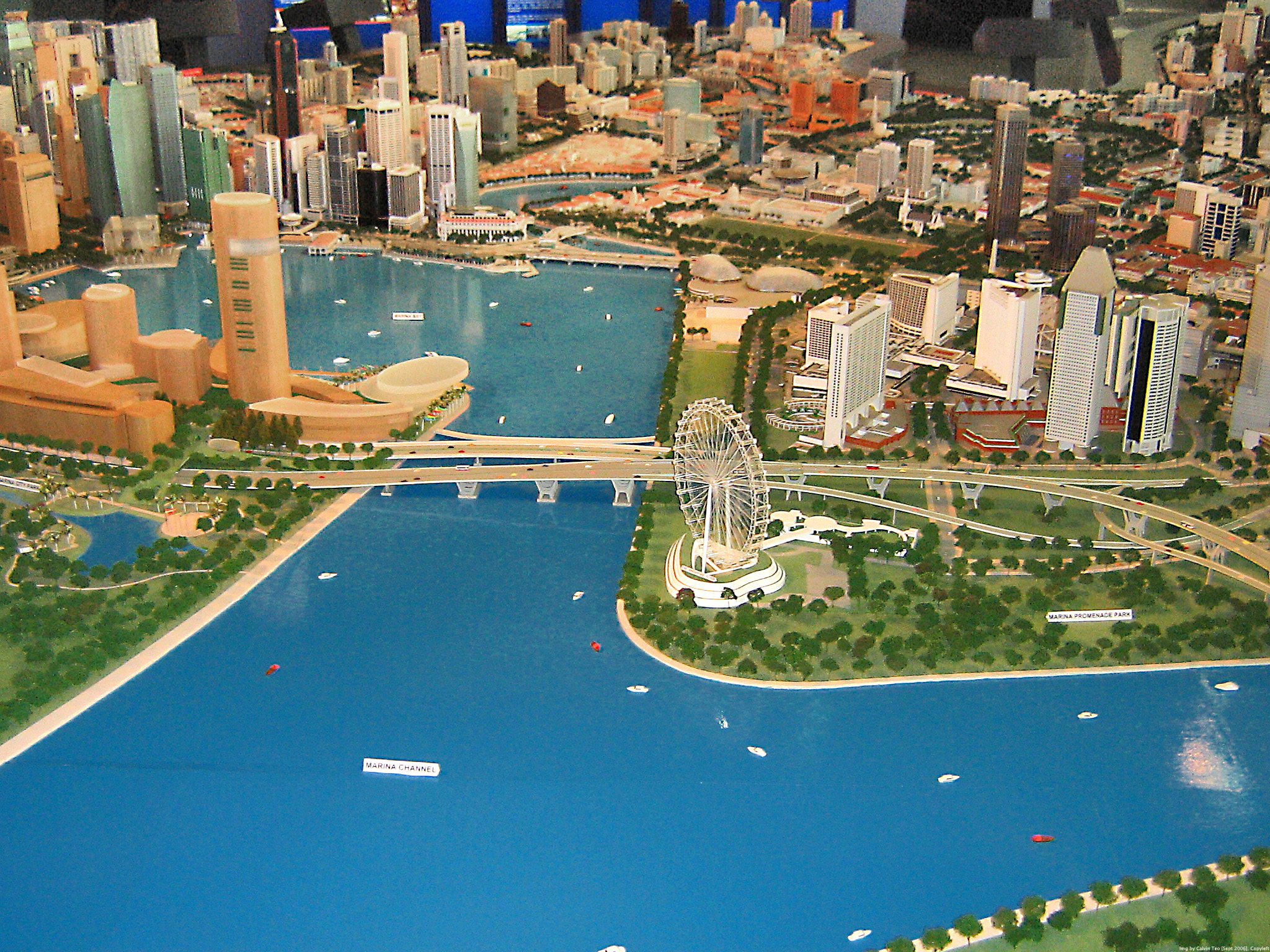 Exhibit at the URA Gallery Museum, showing a mock-up of the city centre. Img by Calvin Teo, September 2006